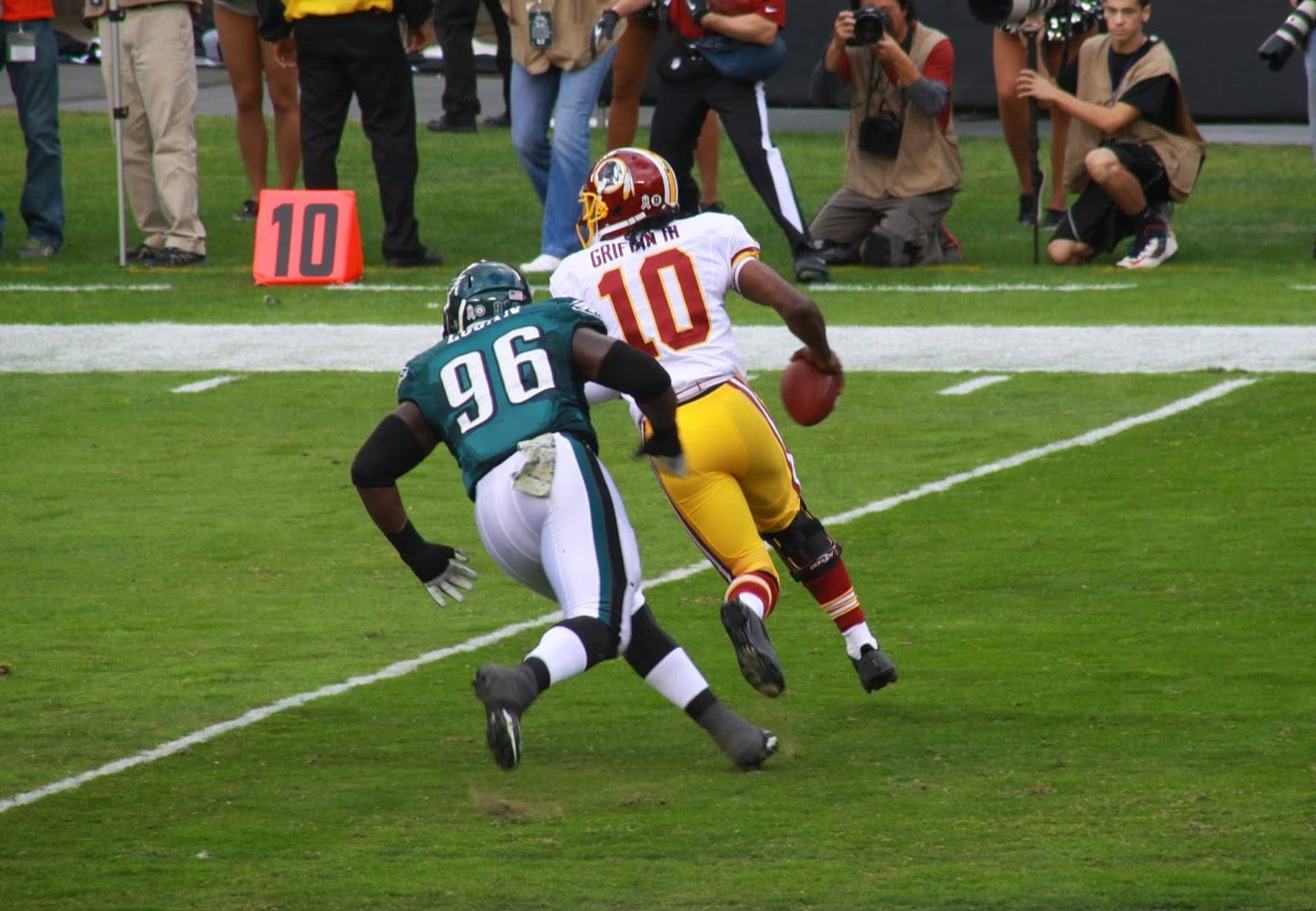 Bennie Logan pursues Redskins quarterback Robert Griffin III during the Eagles 24-16 victory on November 17, 2013.